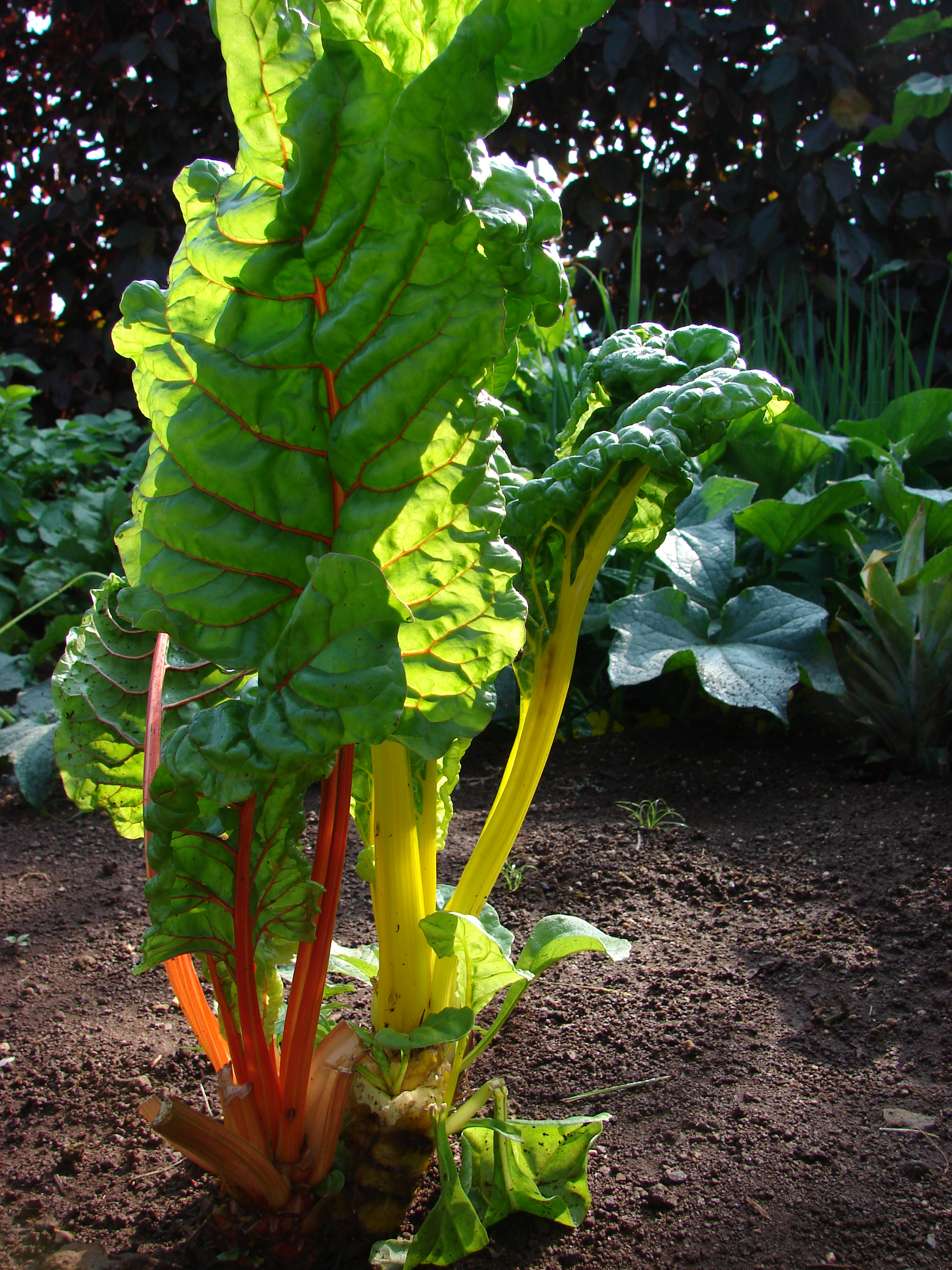 Beta vulgaris subsp. vulgaris, Cicla-group (habit). Location: Maui, Makawao